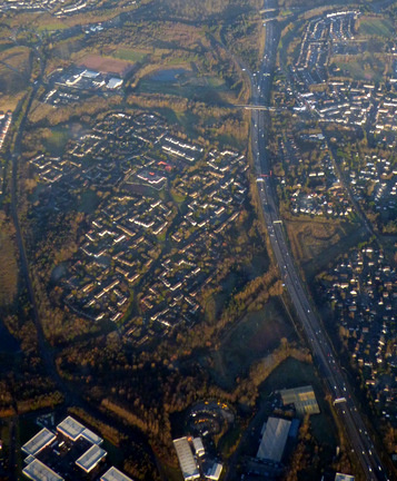 cropped version of Cumbernauld from the air showing residential Westfield